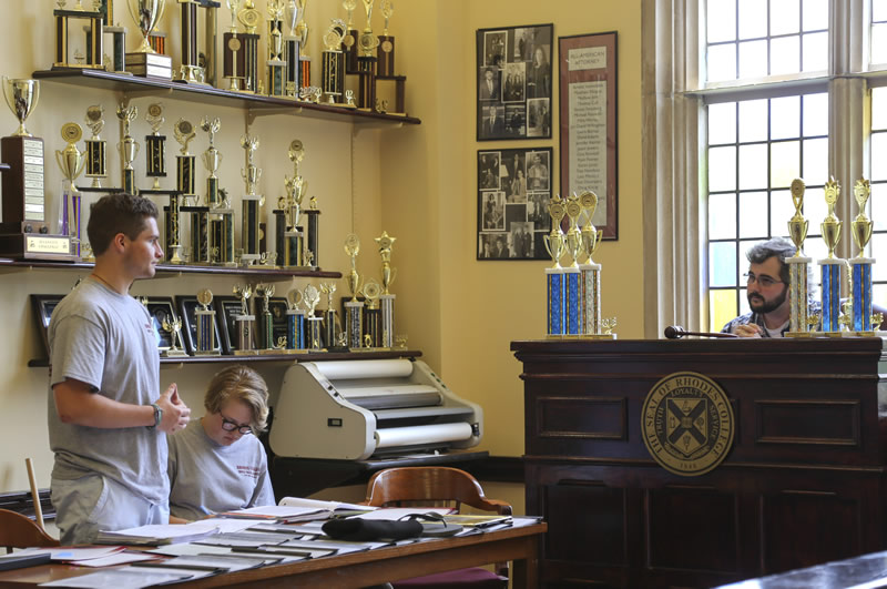 Rhodes mock trial academy